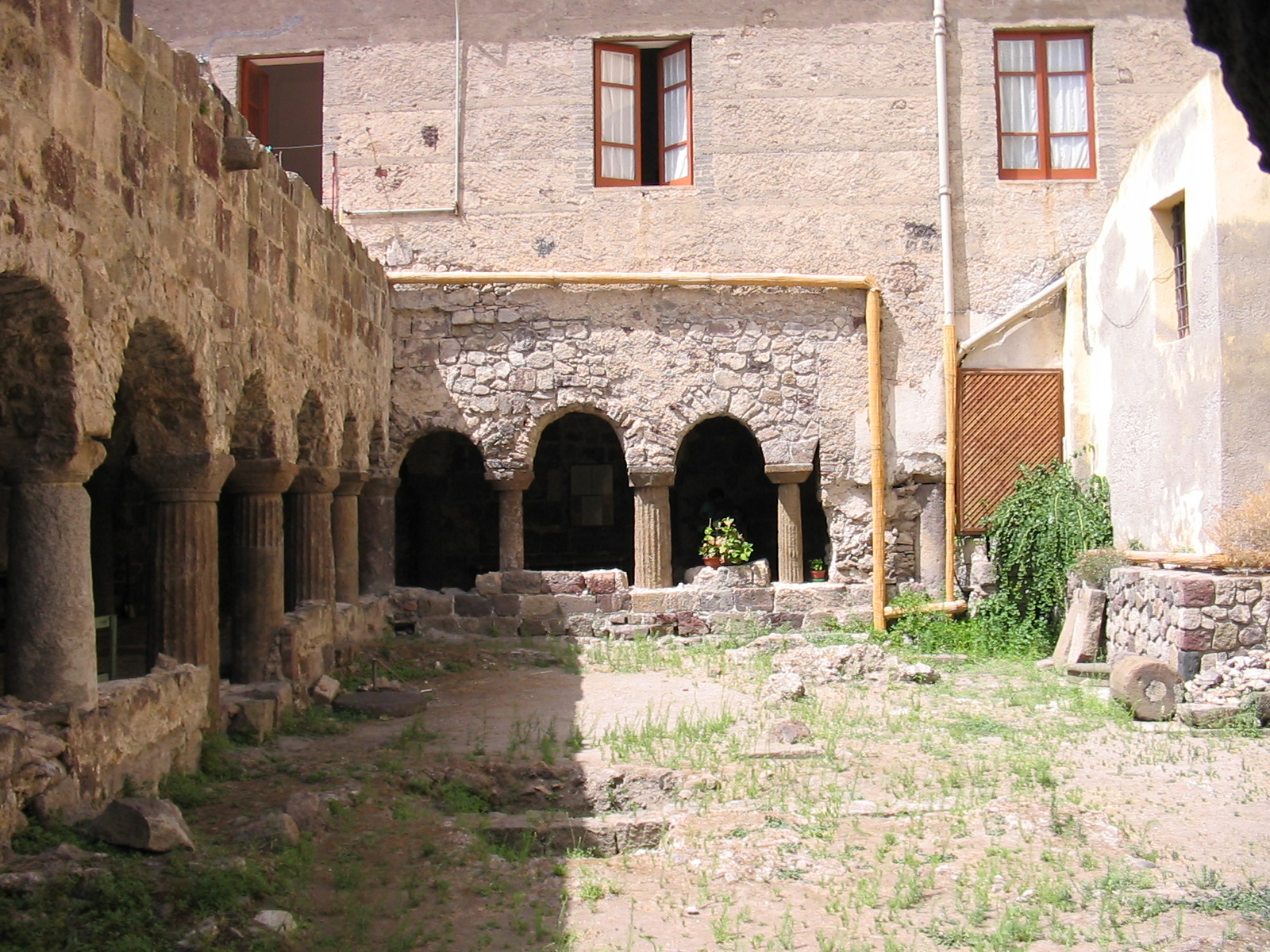 View from the cloisers in the cathedral in Lipari, Sicily